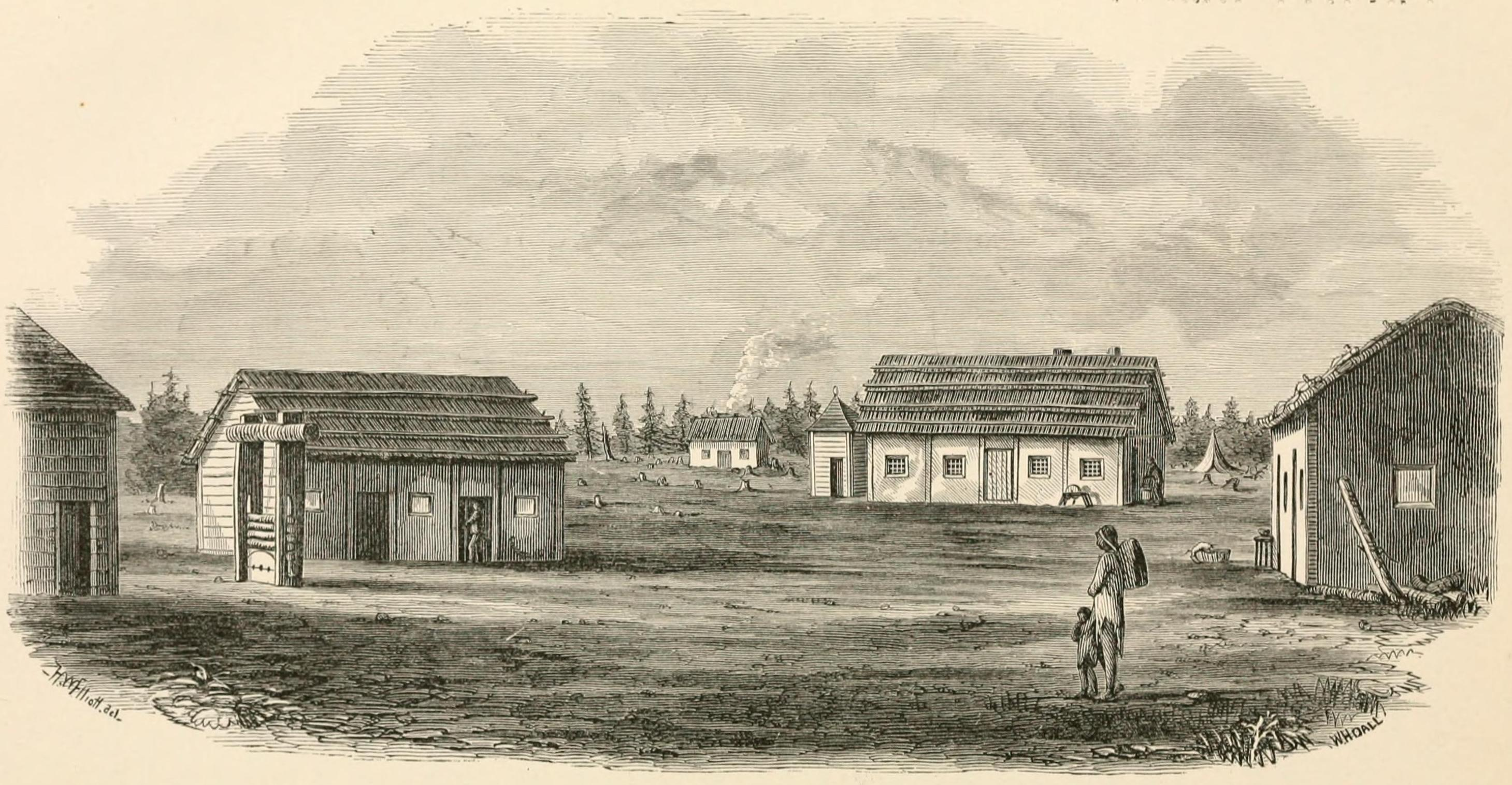 View of Fort Yukon, Alaska.